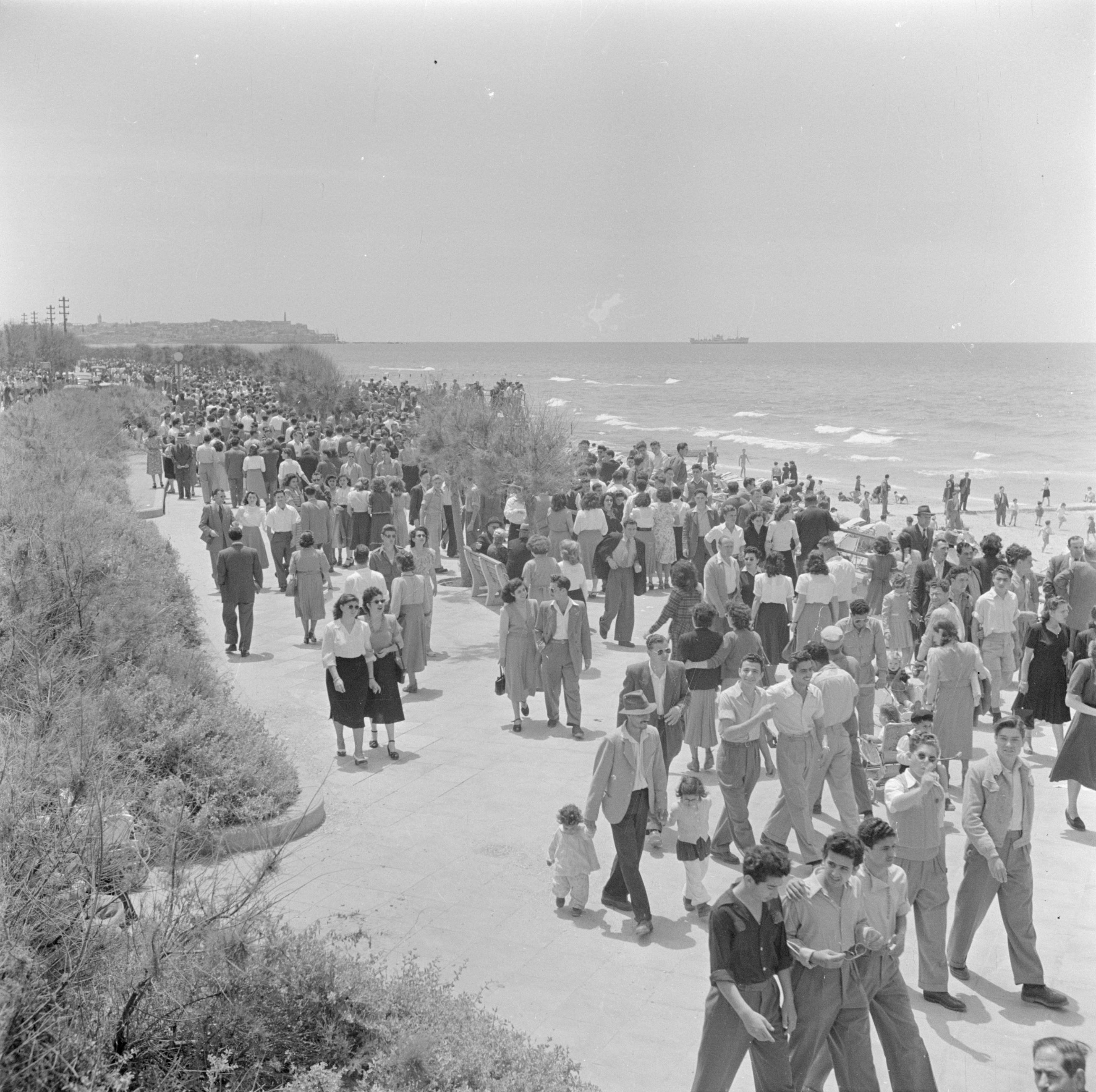 The promenade in Tel Aviv